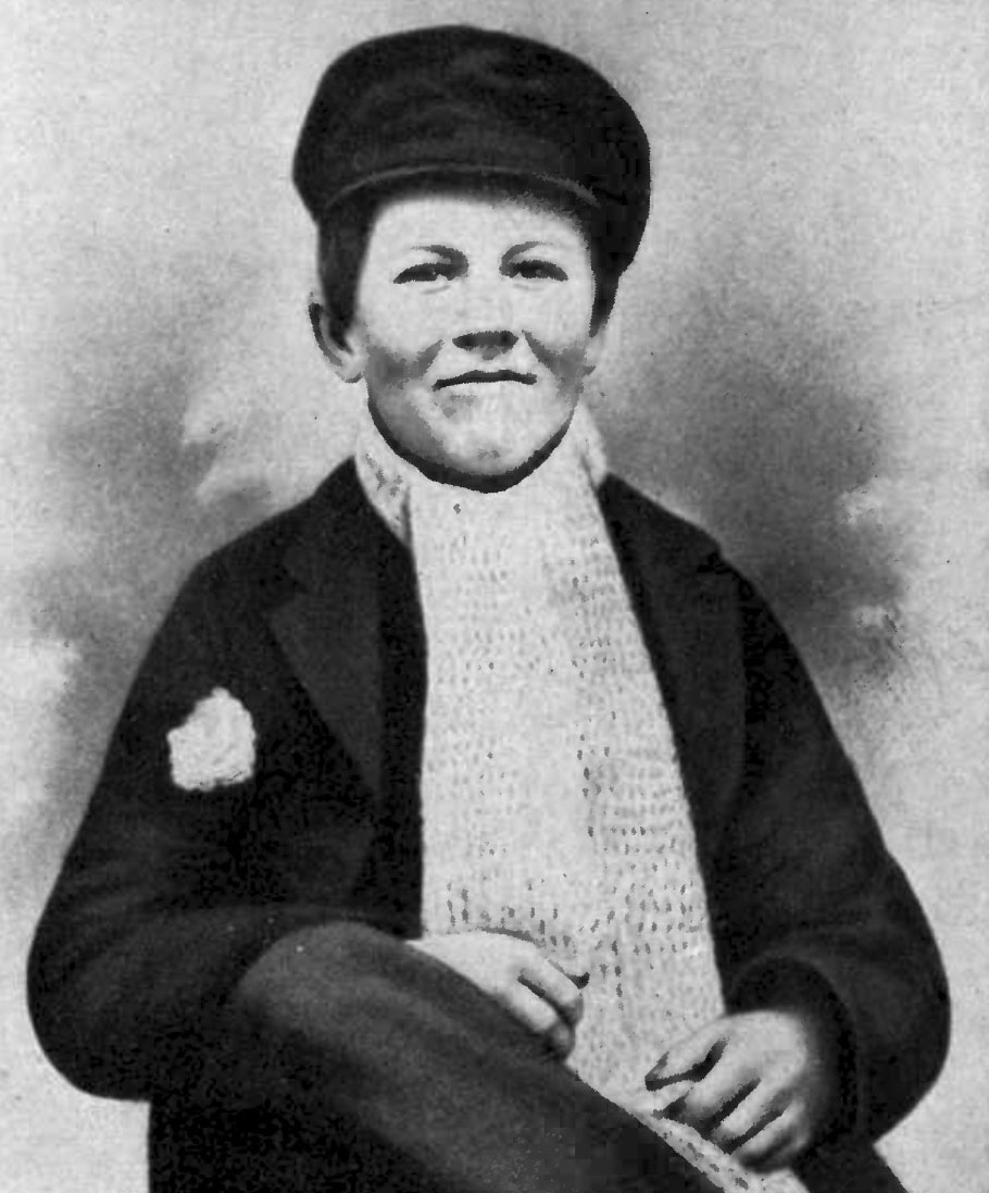 Young Thomas Edison, age 14